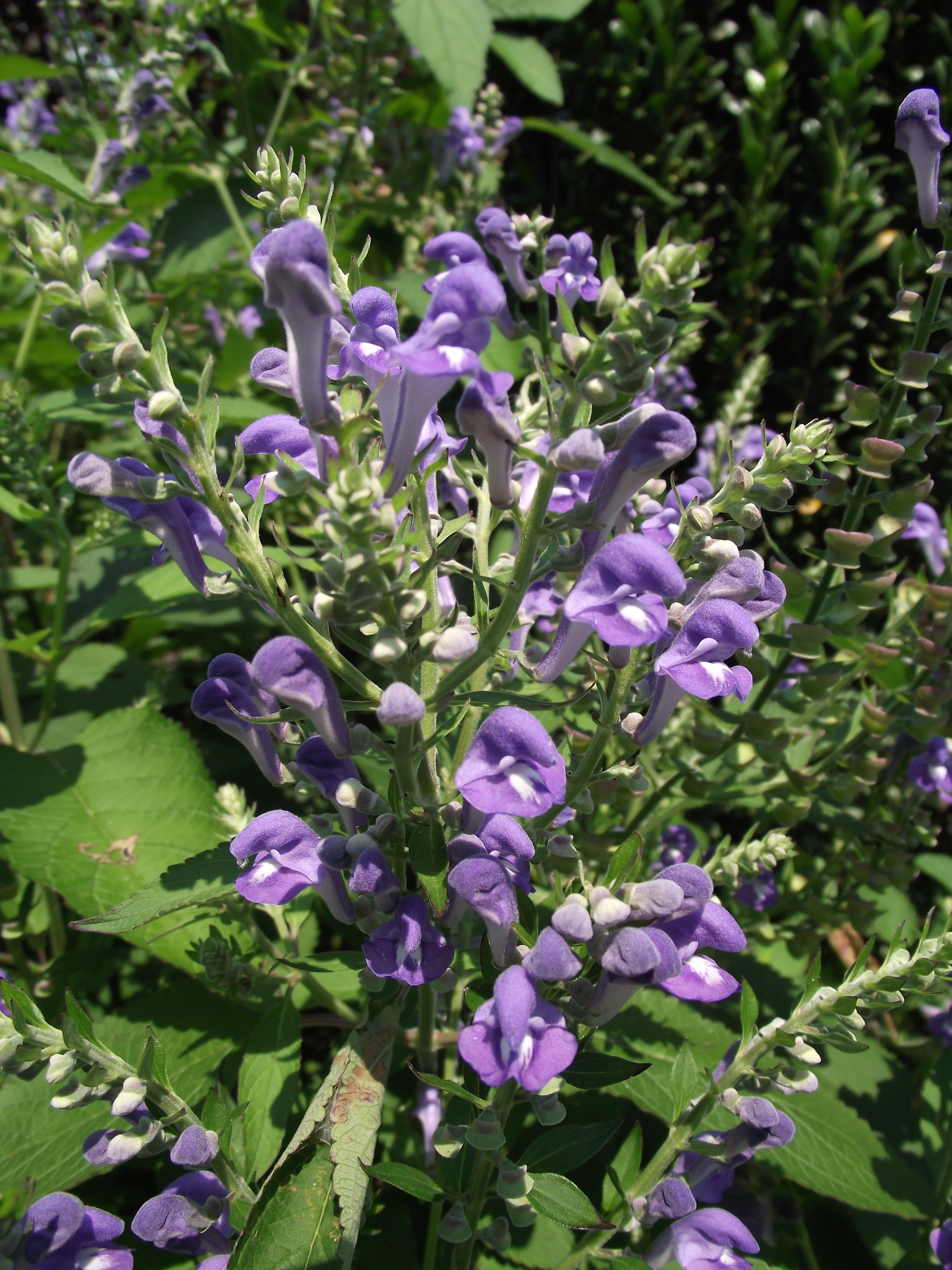 Scutellaria incana at New York Botanical Garden, Bronx, NY, USA